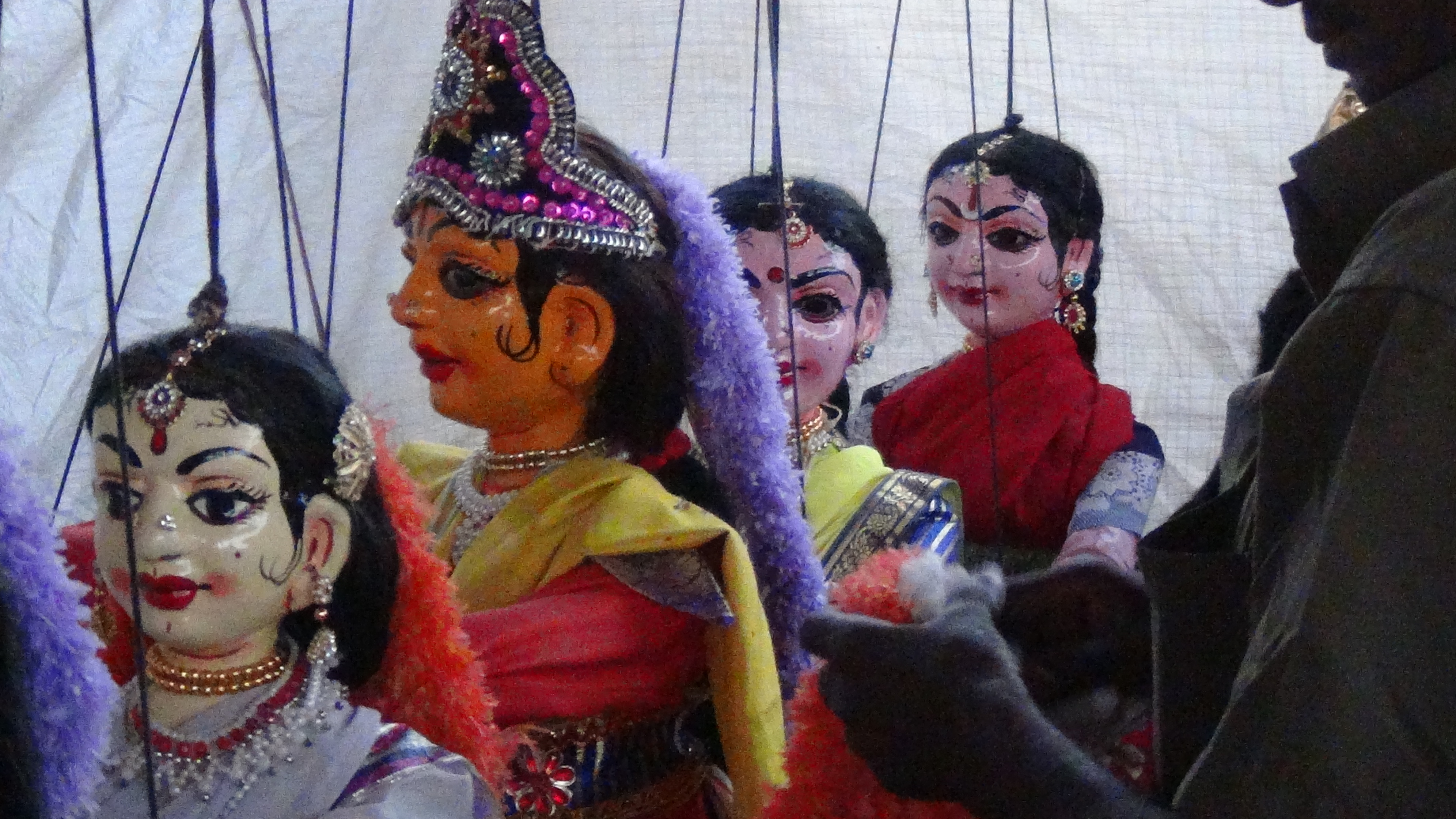 Katta Pommalattam, is one of the oldest performing art of Tamilnadu. Once it was patronized by kings and rulers but due to lack of support this art form slowly dying. Only few groups are still continue their performance in rural Tamilnadu.